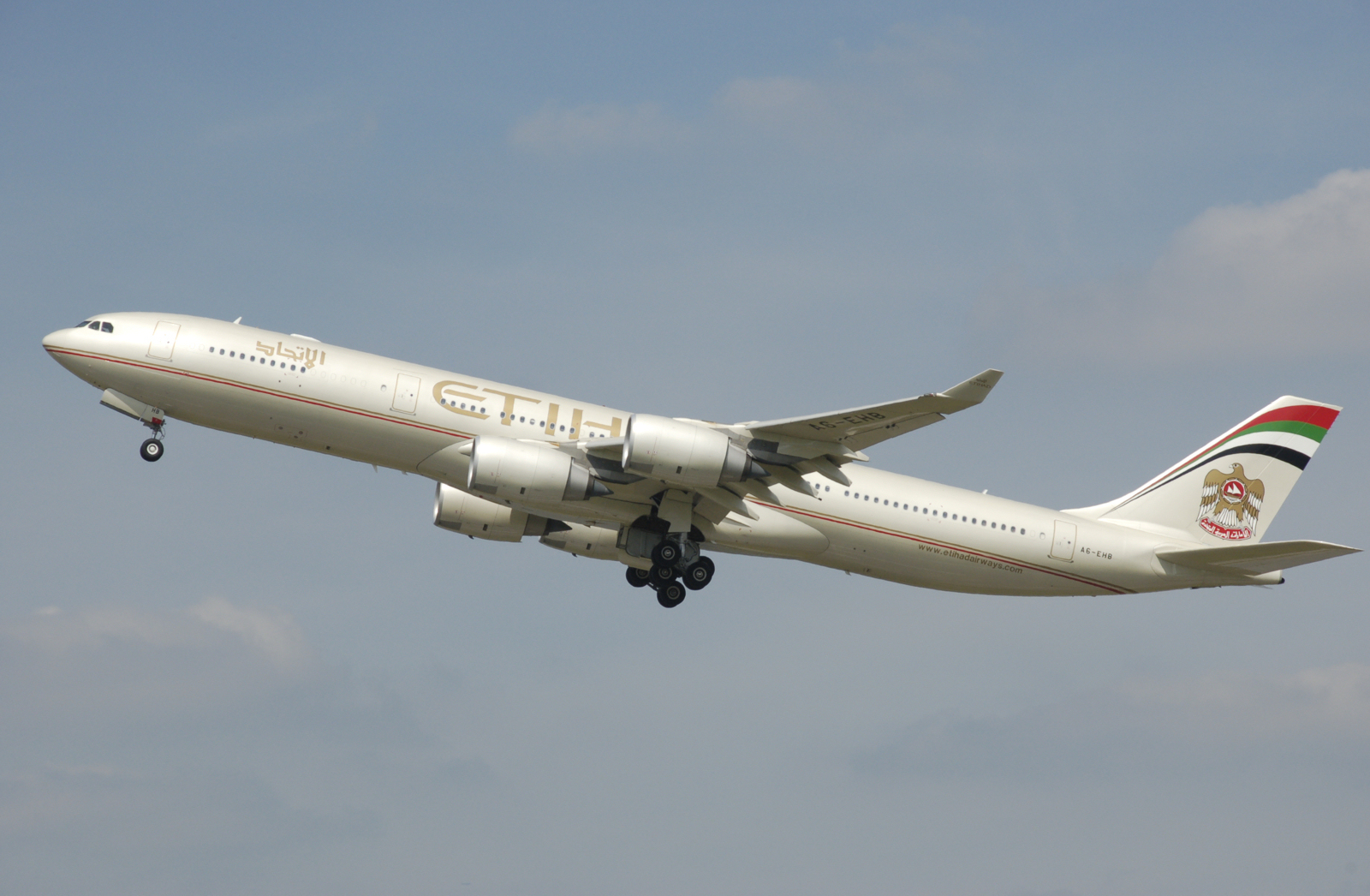 Etihad Airways A340-500 (A6-EHB) takes off from London Heathrow Airport, England.